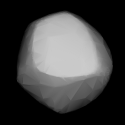 3D convex shape model of 402 Chloë, computed using light curve inversion techniques. J. Hanuš, J. Ďurech, M. Brož, B. D. Warner (June 2011). "A study of asteroid pole-latitude distribution based on an extended set of shape models derived by the lightcurve inversion method". Astronomy and Astrophysics 530: A134. ISSN 0004-6361. arXiv